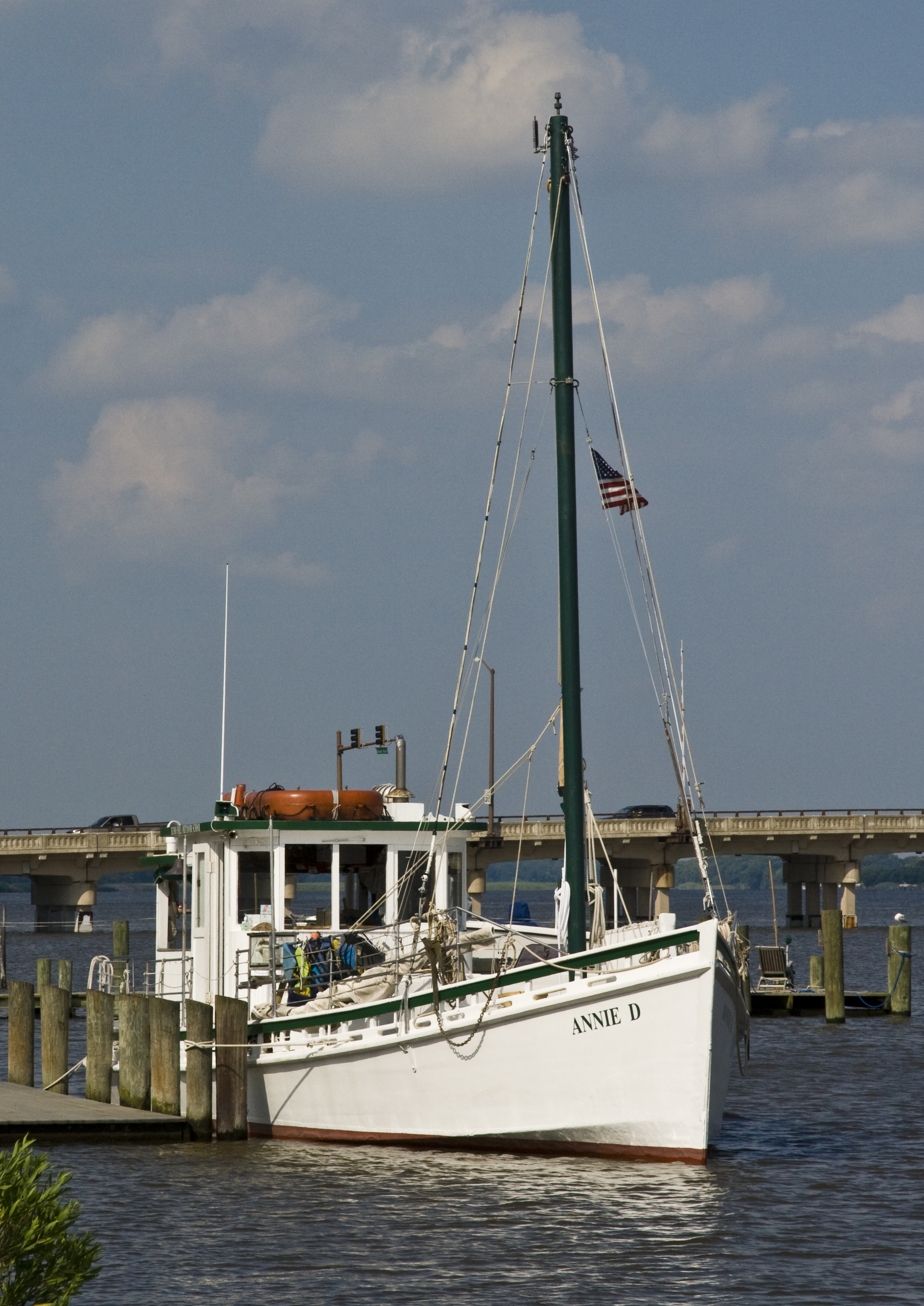 Chesapeake buy-boat Annie D at Chestertown, Maryland, USA